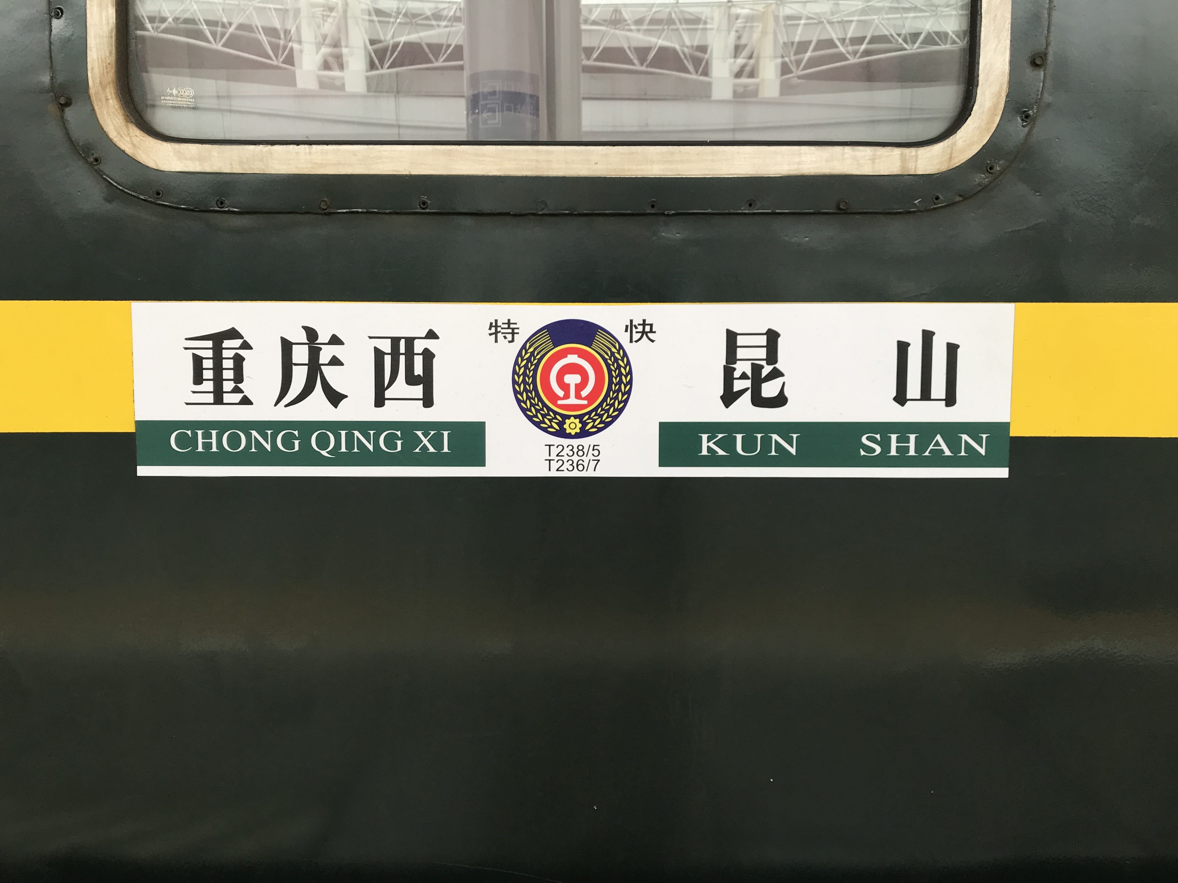 Extended to Kunshan since Jul 10